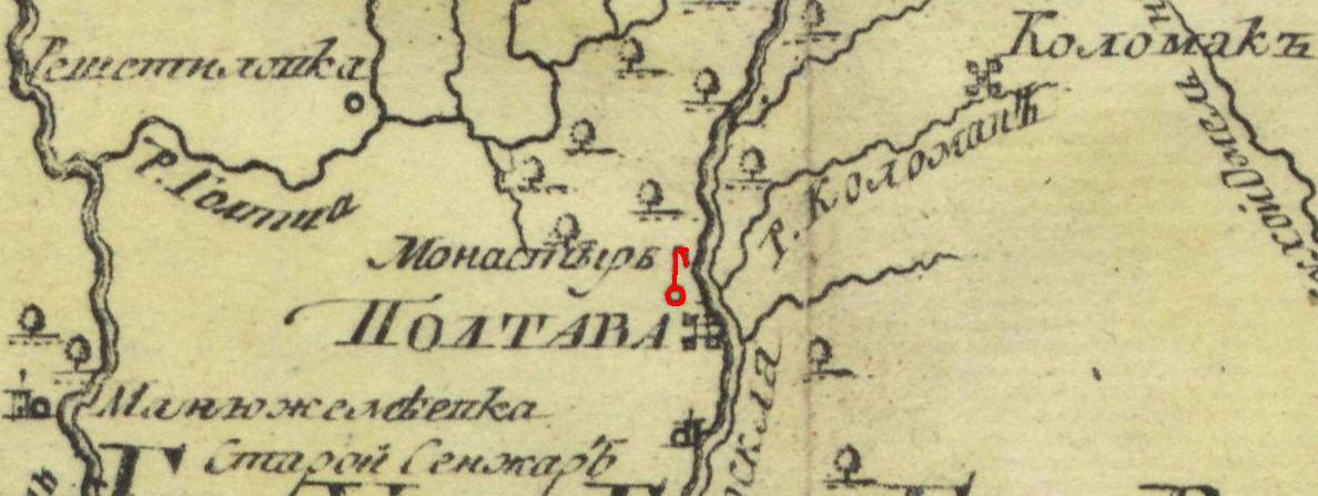 Pushkarevskiy Ascension Monastery on the map of the province of Poltava in 1745